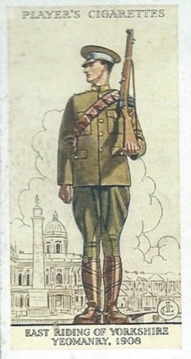 Uniform of the East Riding of Yorkshire Yeomanry 1908, from a cigarette card published ca 1938